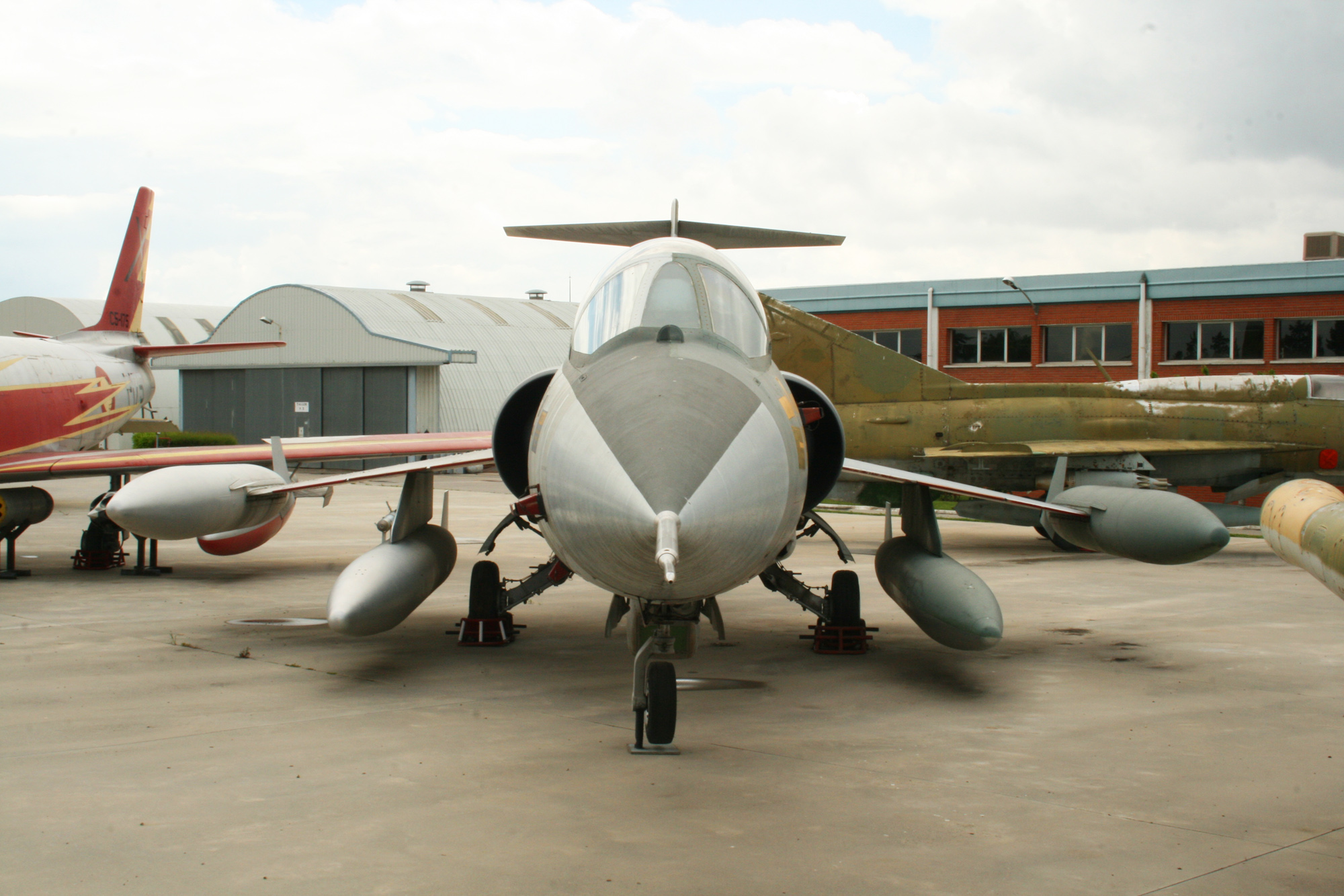 Caza Lockheed F-104G Starfighter, procedente del JaboG 36 de la Luftwaffe (Fuerza Aérea de Alemania). La mitad de estribor del avión se conserva con la decoración que tenía el aparato C.8-15 / 104-15 cuando prestó servicio en el Ala 12 del Ejército del Aire español, con base en Torrejón de Ardoz (Madrid); el auténtico C.8-15 pasó a la Fuerza Aérea de Turquía después de servir en la Fuerza Aérea Española. La mitad de babor se conserva con su decoración alemana y el numeral 26+23. Museo del Aire de Cuatro Vientos (Madrid, España). F-104G Starfighter Fighter aircraft Lockheed F-104G Starfighter, from the JaboG 36 of the Luftwaffe (German Air Force). The starboard half plane keeps the decor of the unit C.8-15 / 104-15 when it served in the 12th Wing of the Spanish Air Force, based in Torrejón de Ardoz (Madrid). The real C.8-15 was sent to the Turkish Air Force after serving in the Spanish Air Force. Half port remains with German decor and the number 26 +23. Museum of the Air of Cuatro Vientos (Madrid, Spain).